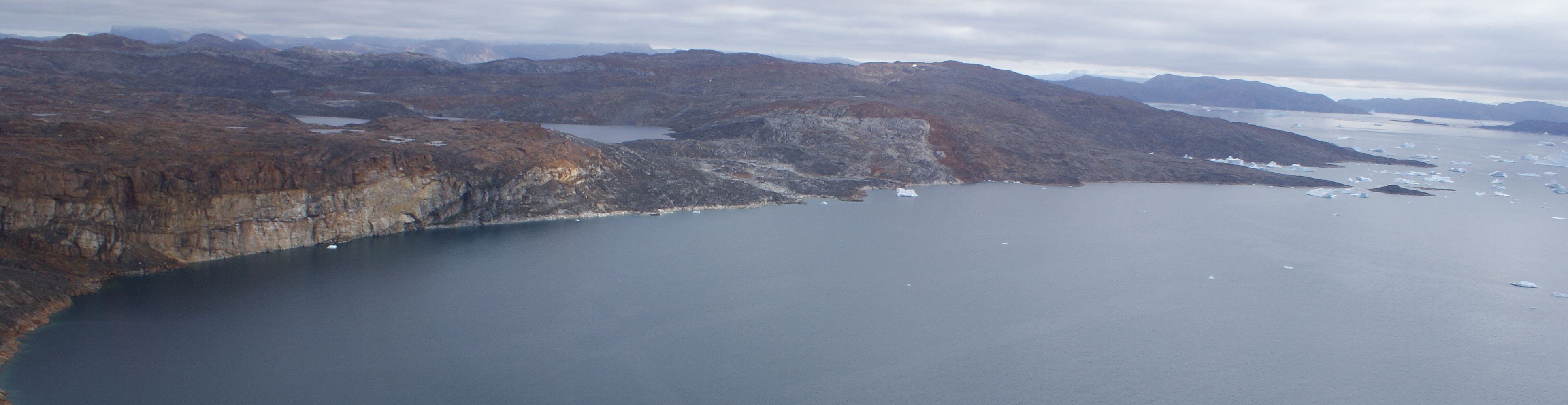 Aerial view of Qallunaat Island, Tasiusaq Bay, Upernavik Archipelago, Greenland. Photographed in very poor visibility conditions from the Air Greenland Bell 212 helicopter during the Upernavik-Kullorsuaq flight.